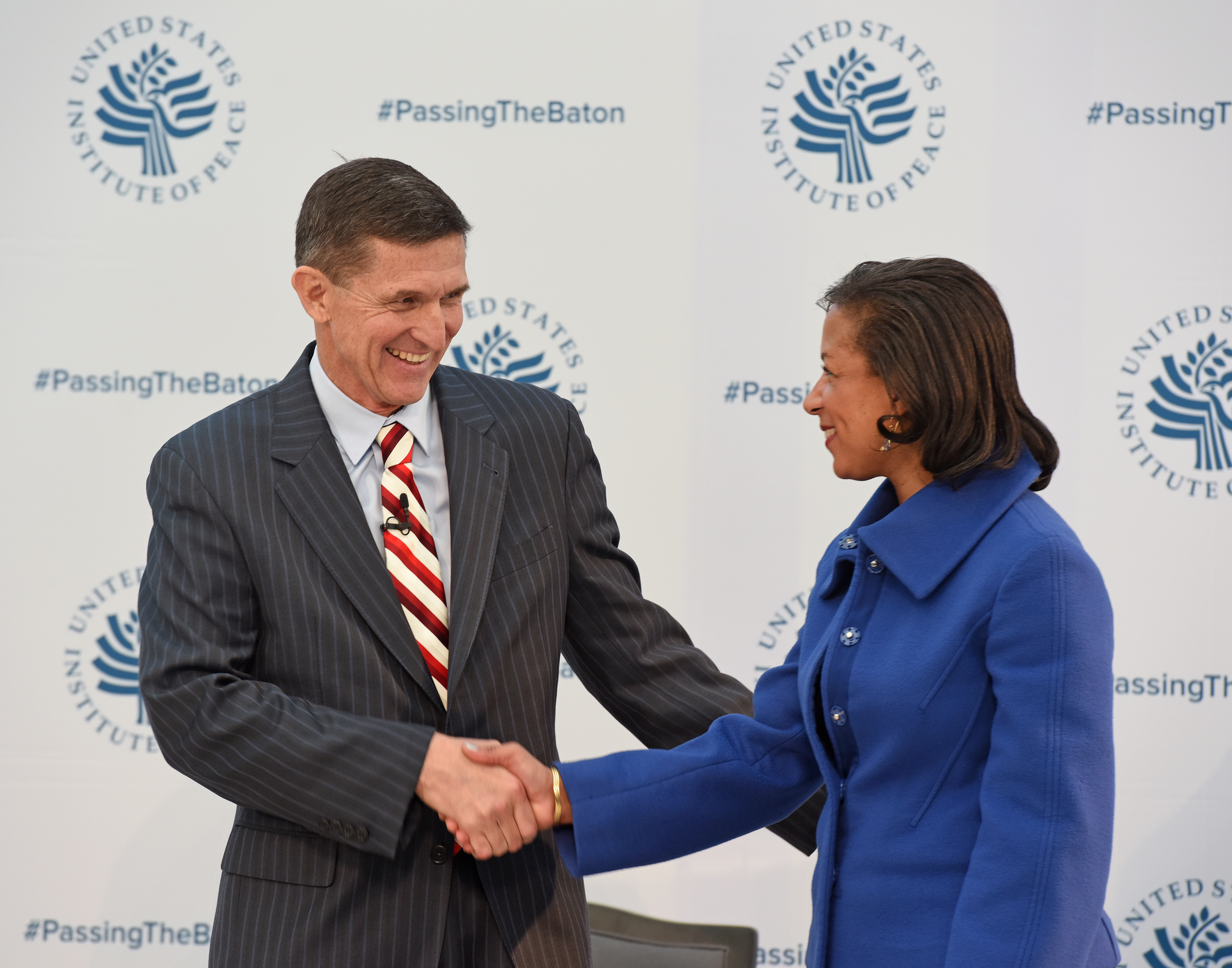 National Security Advisor Susan Rice shakes hands with National Security Advisor Designate Michael Flynn to signify 'passing the baton' from the current national security administration to the incoming administration's team.